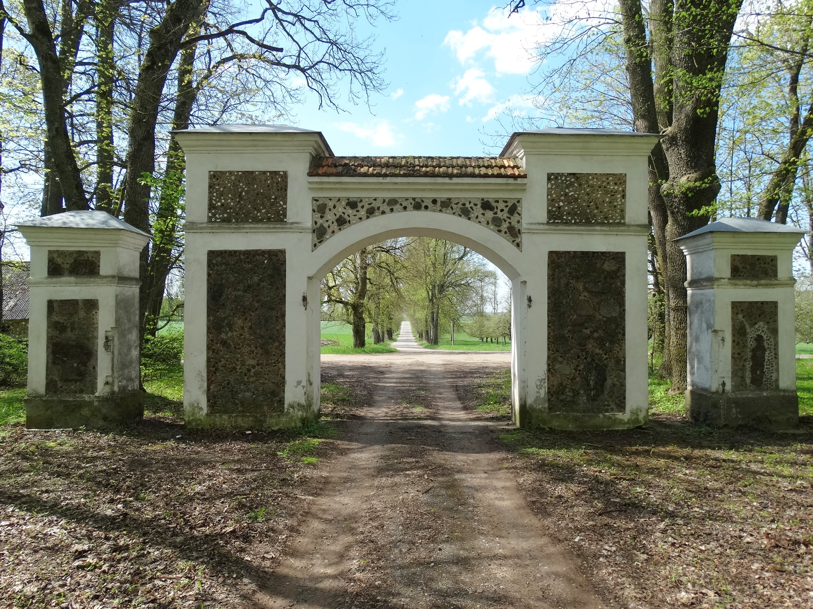 Manor, Gornostajiškės, Šalčininkai District, Lithuania